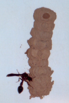 photography taken in 2004 in Guinea. showing mass provisionning from a wasp (Eumeninae). the wasp collected larvas to feed its brood.